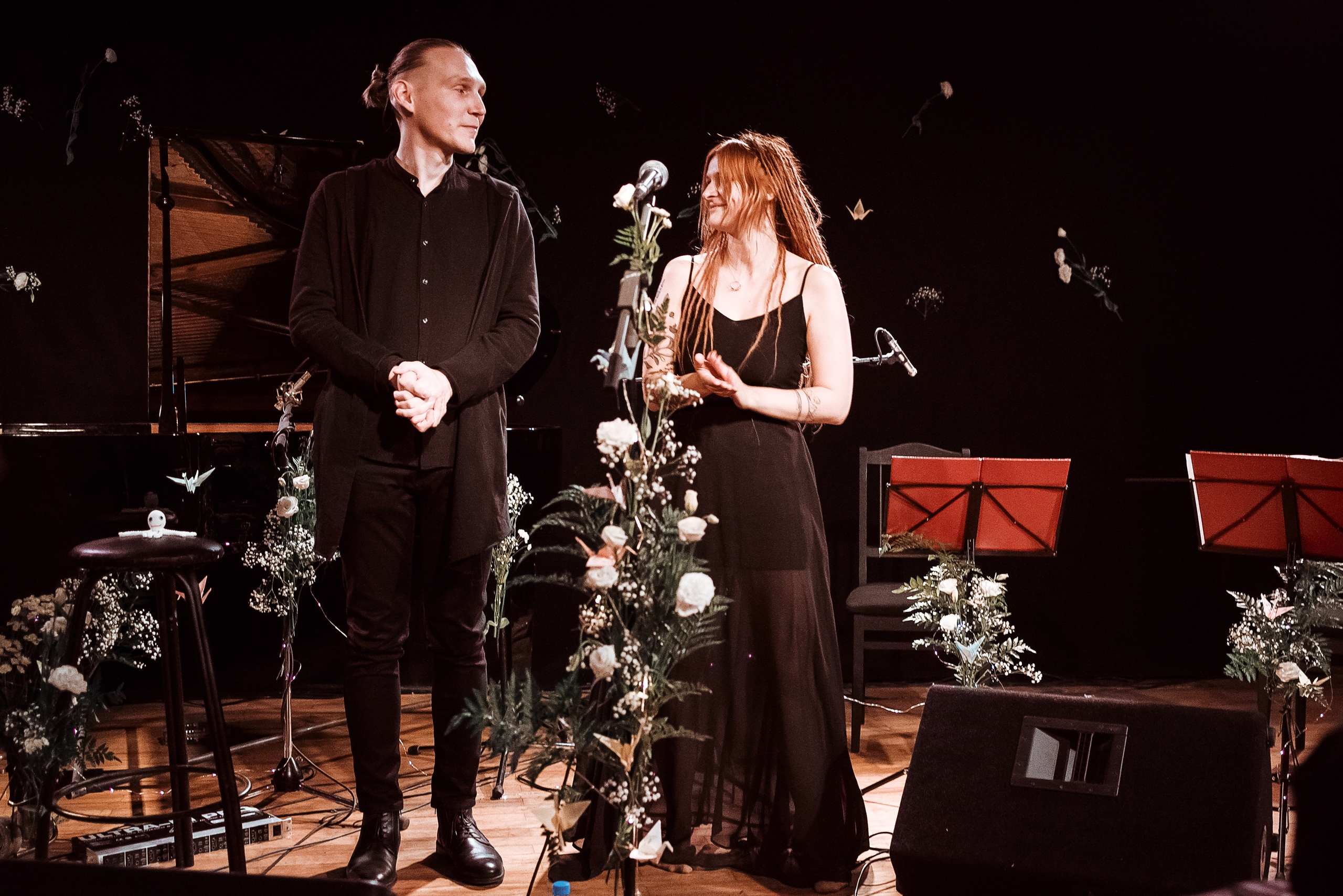 Gleb Kolyadin, Marjana Semkina